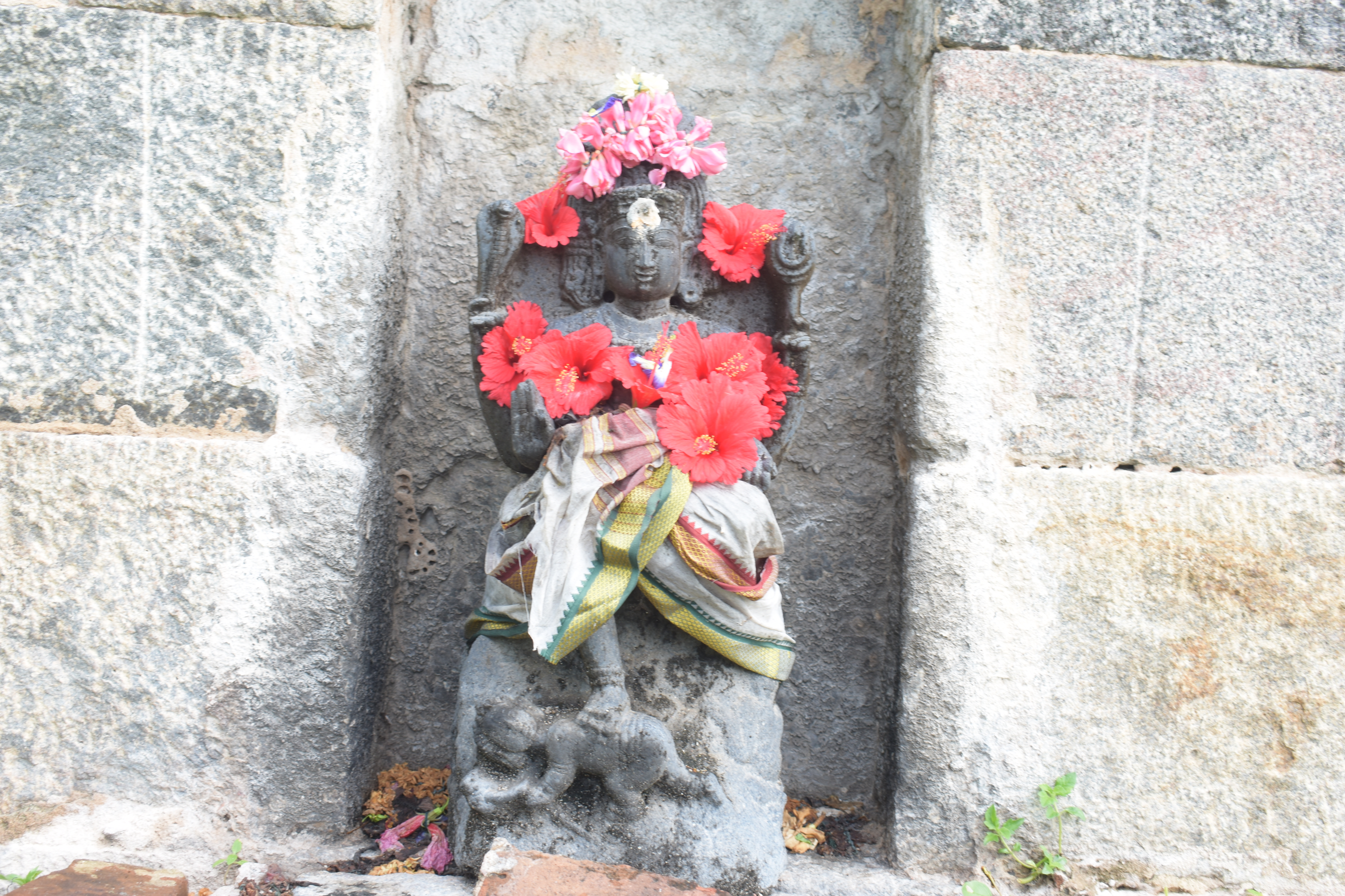 Eeswarakandanalloor Thirumoolanaadhaswamy temple vadathakshanamoorthy statue